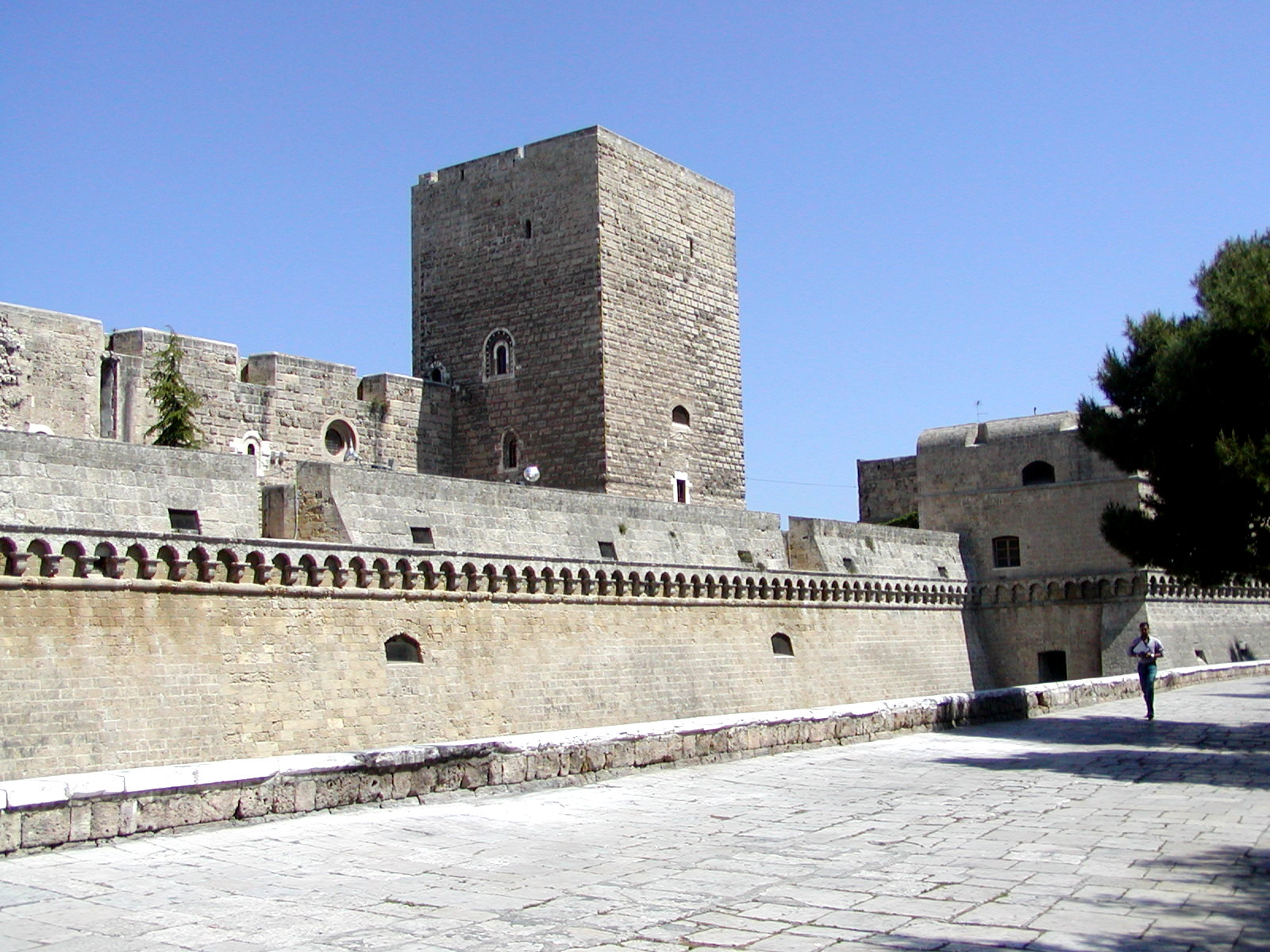 Castle of Bari